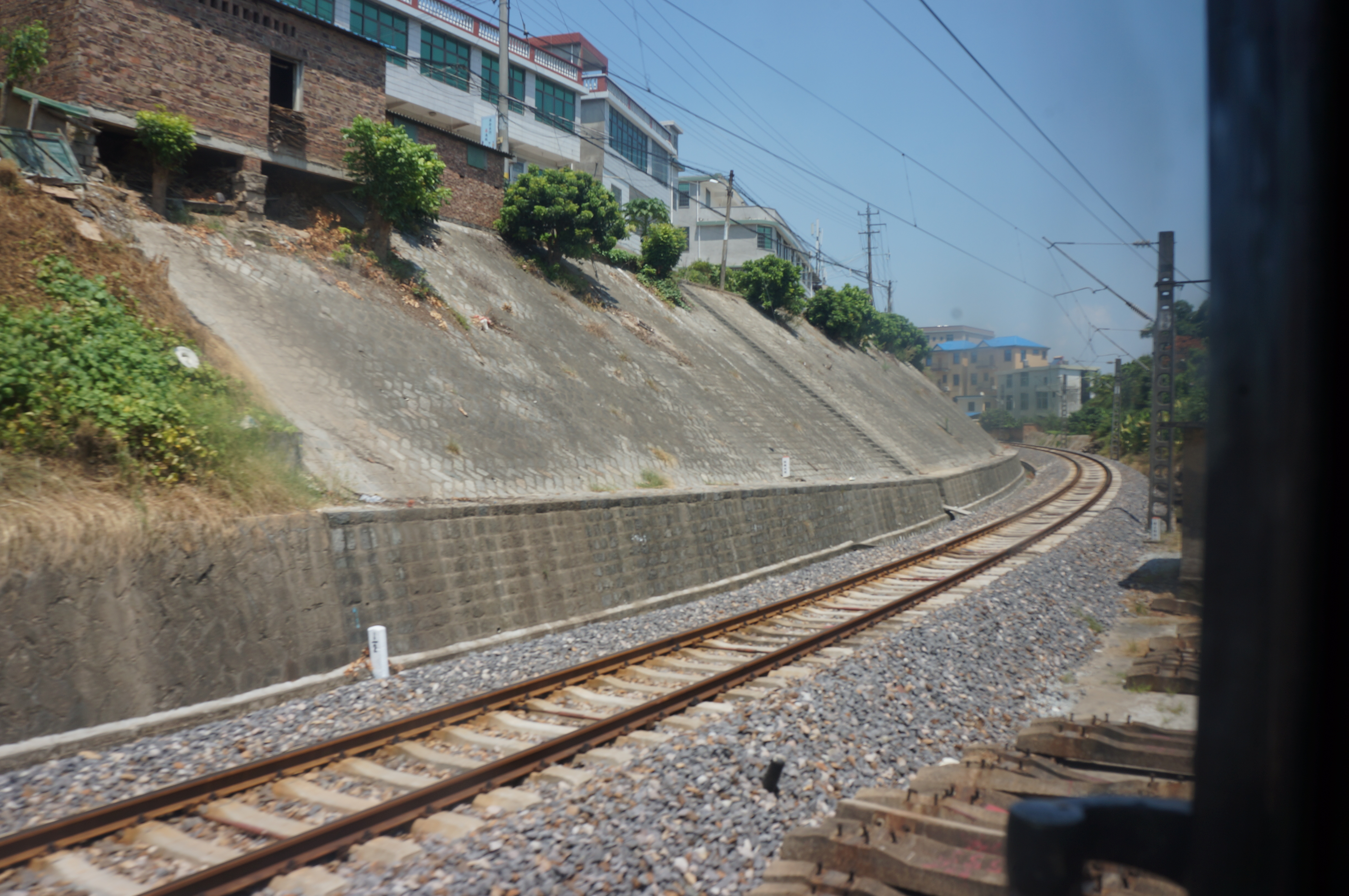 201708 Zhangzhou Subline towards Zhangzhoubei Station.